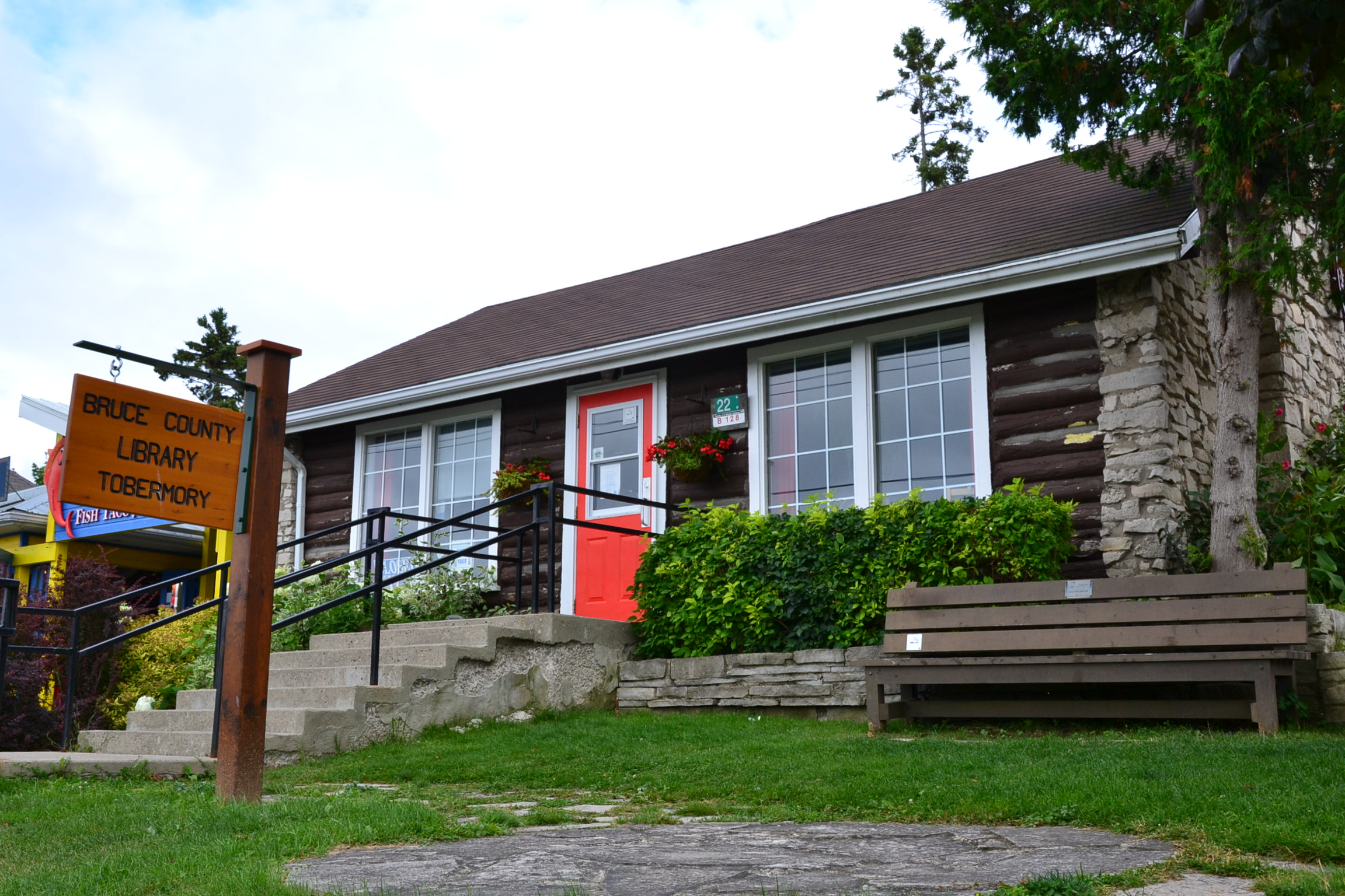 Old house in Tobermory (Ontario)